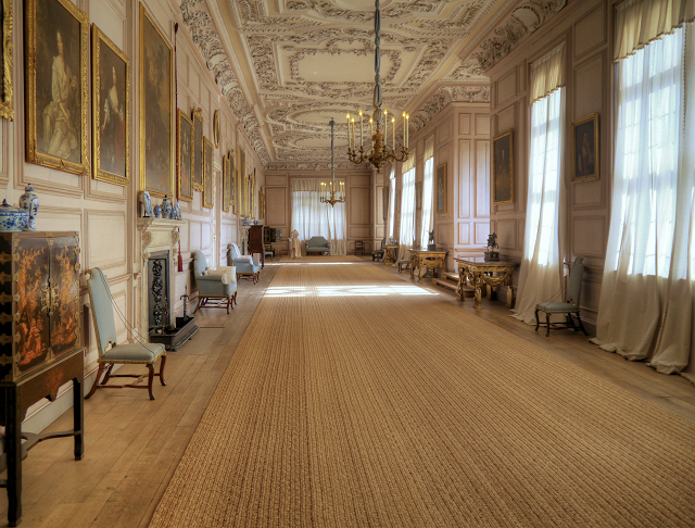 The Long Gallery, Sudbury Hall. Sudbury Hall is a country house in Derbyshire, regarded by many as one of the country's finest Restoration mansions. It has Grade I listed building status.